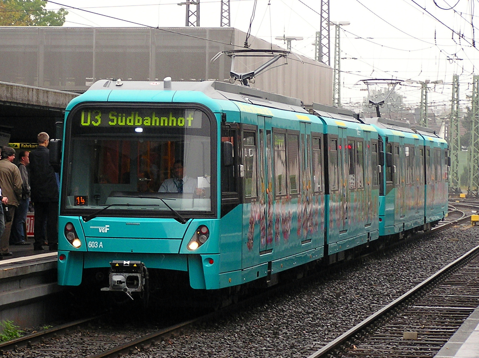 First regular tour with passengers of the U5 railcars 603 and 602 as line U3 from Frankfurt-Heddernheim to Südbahnhof.